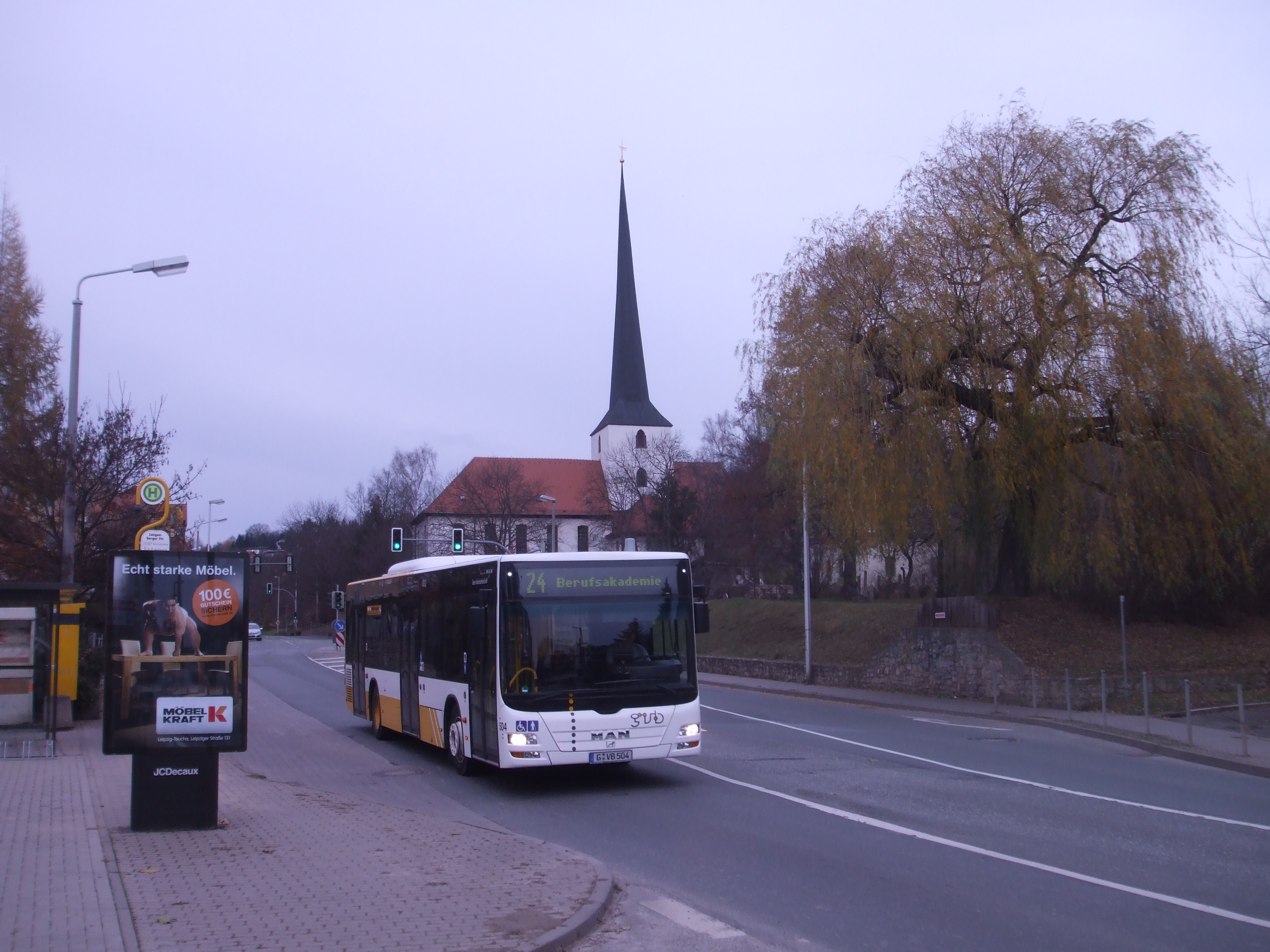 In the centre of the district of Langenberg, Gera, Germany; with a bus of the Gera Traffic Corporation (GVB)